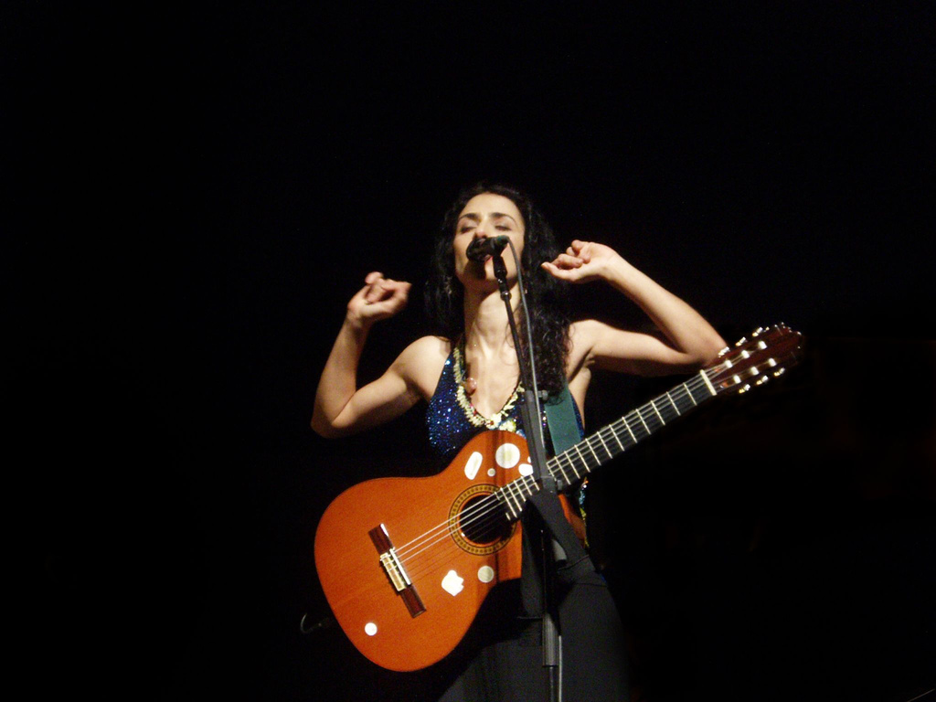 Chevrolet Hall - BH - Brasil - Marisa Monte (14.09.07)